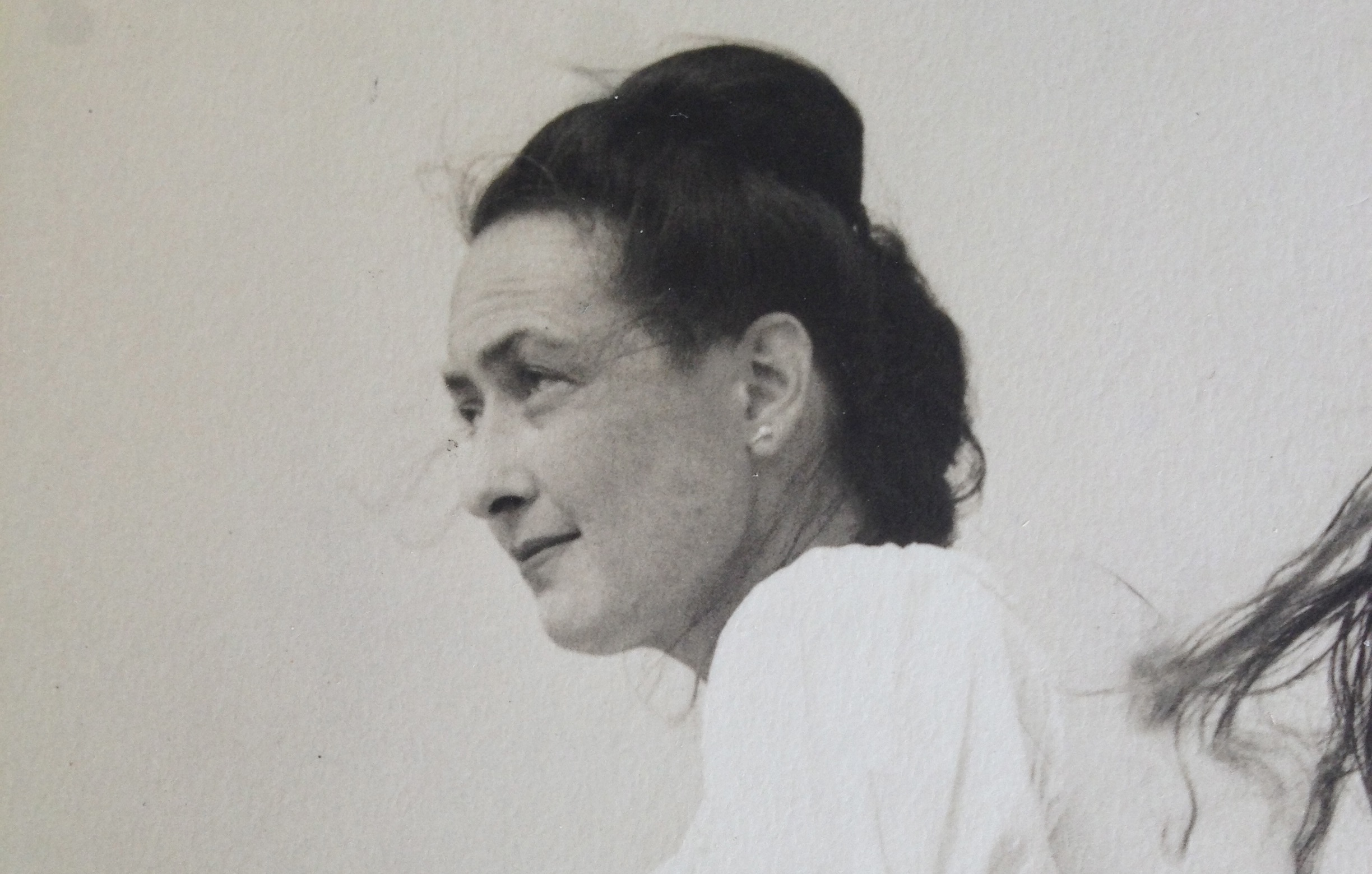 Picture of Anne Jenness Saporetti